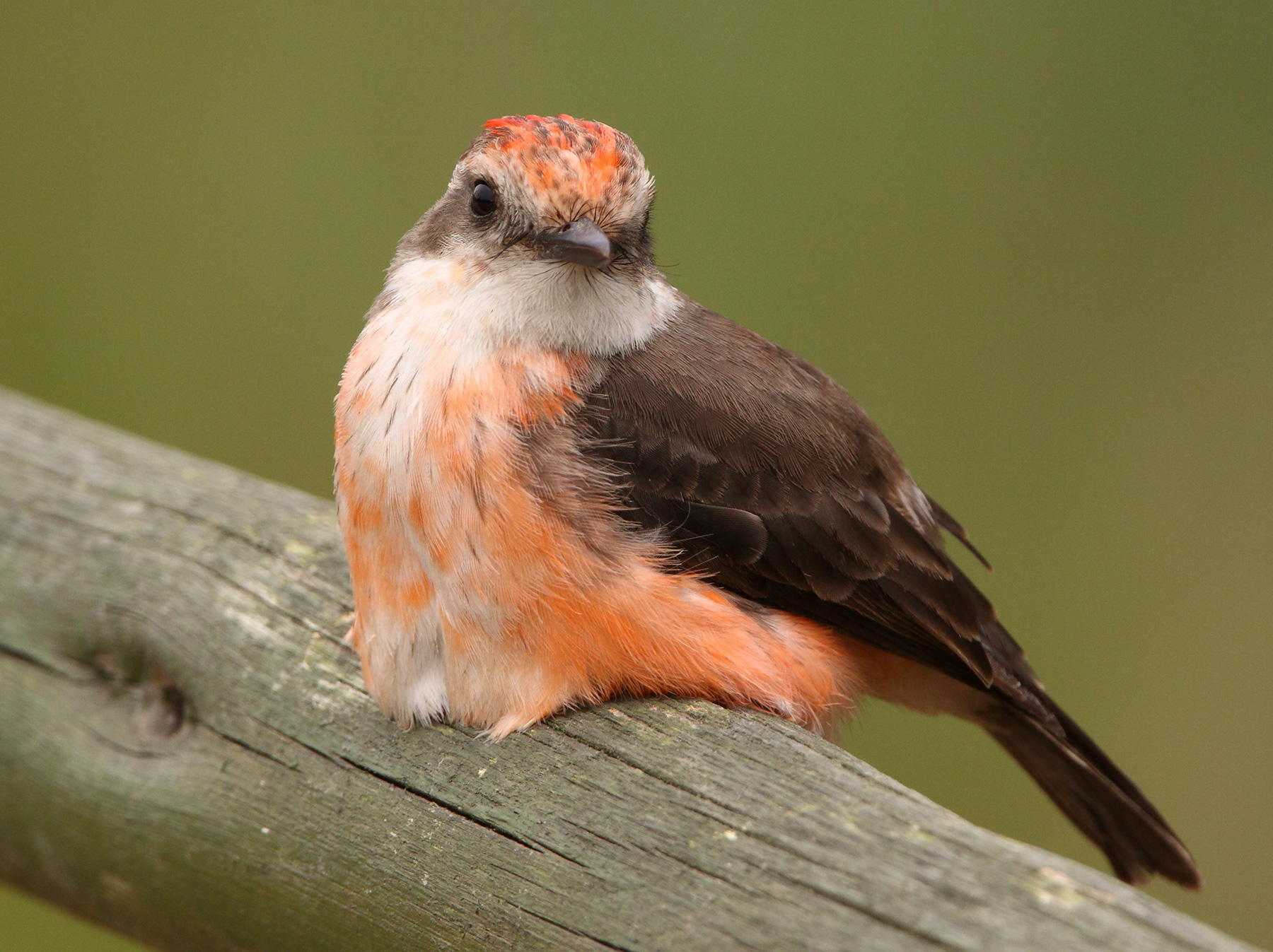 Juvenile male Vermillion Flycatcher Pyrocephalus obscurus, Lima, Peru